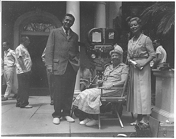 Filming of the movie Sunrise at Campobello at home of Pres. Franklin D. Roosevelt, Hyde Park, NY (1960). Pictured (l-r): Ralph Bellamy, Eleanor Roosevelt, and Greer Garson.